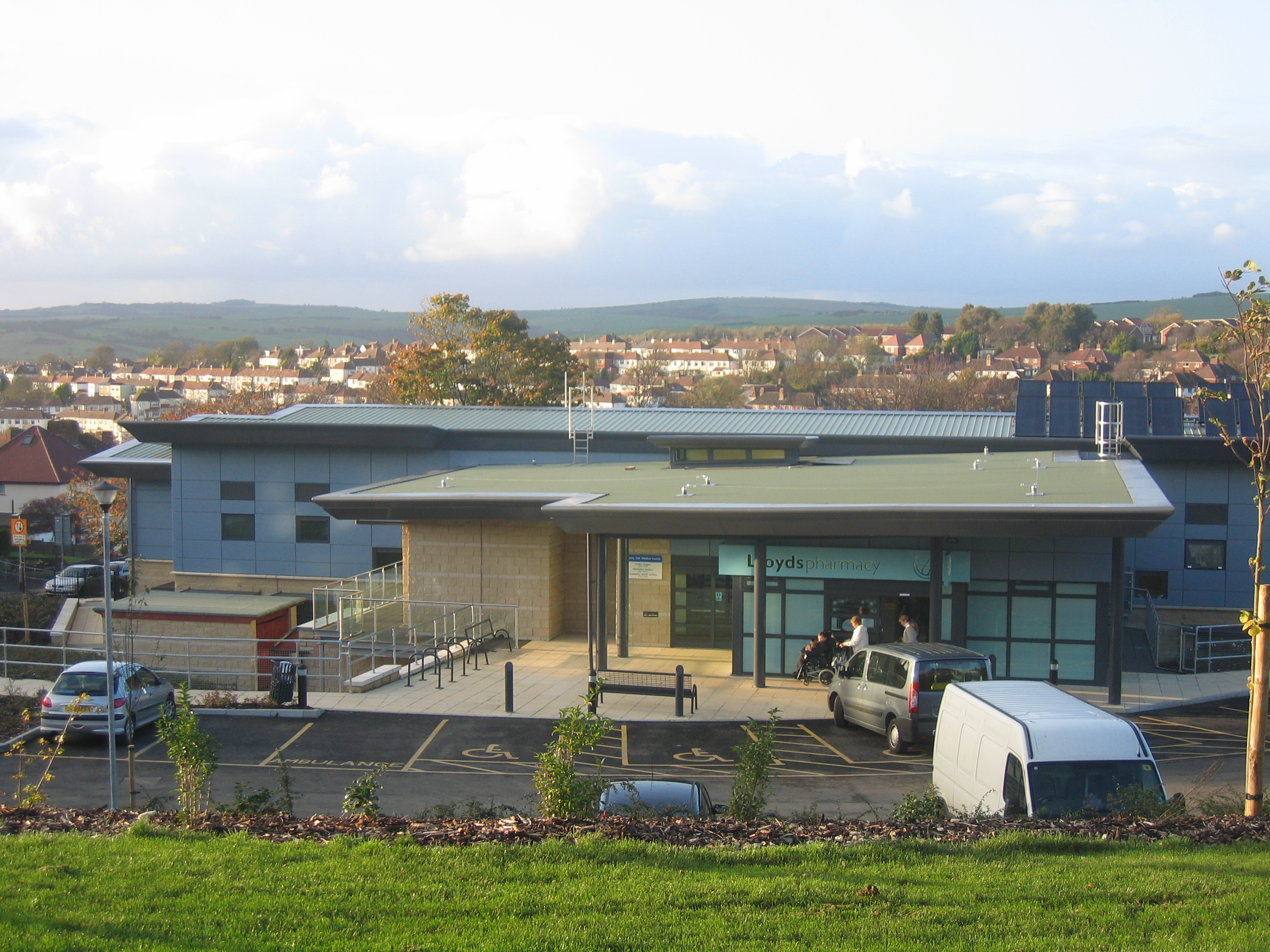 A view of the County Oak Medical Centre which opened in the grounds of Carden School in 2008.